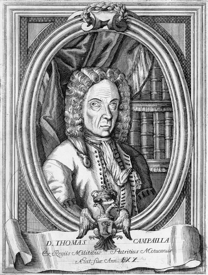 Portrait of Tommaso Campailla (1668-1740)